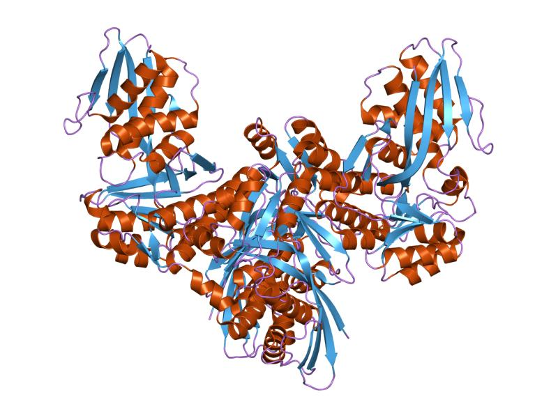 Cartoon representation of the molecular structure of protein registered with 1fwl code.